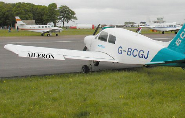 Aileron location on a Piper PA-28 Cherokee at the Great Vintage Fly-in Weekend, Kemble Airfield, England, May 2003. The aileron in the picture is slightly drooped.